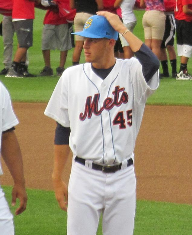 Zack Wheeler prior to Eastern League All-Star Game in Reading PA 2012 07 11